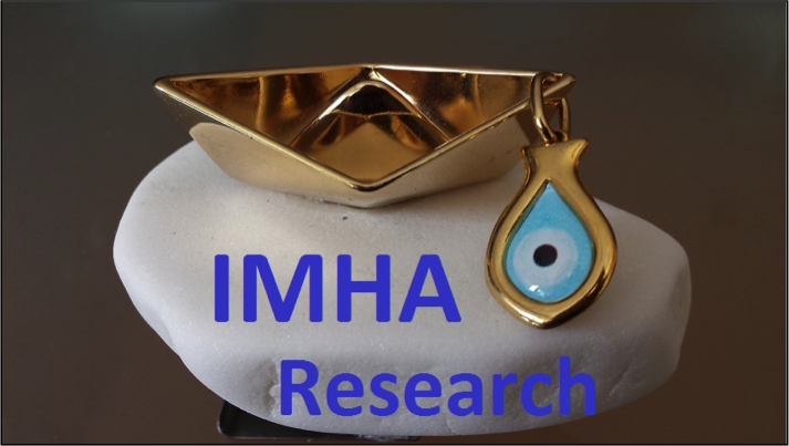 This Logo for IMHA Research has been chosen to be the prelimianry logo for the international research organisation